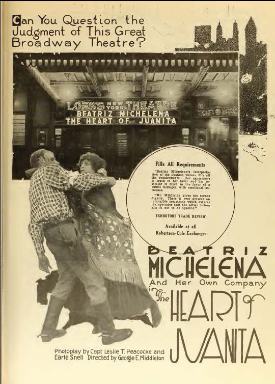 Beatriz Michelena in the American film Heart of Juanita (1919) directed by George E. Middleton